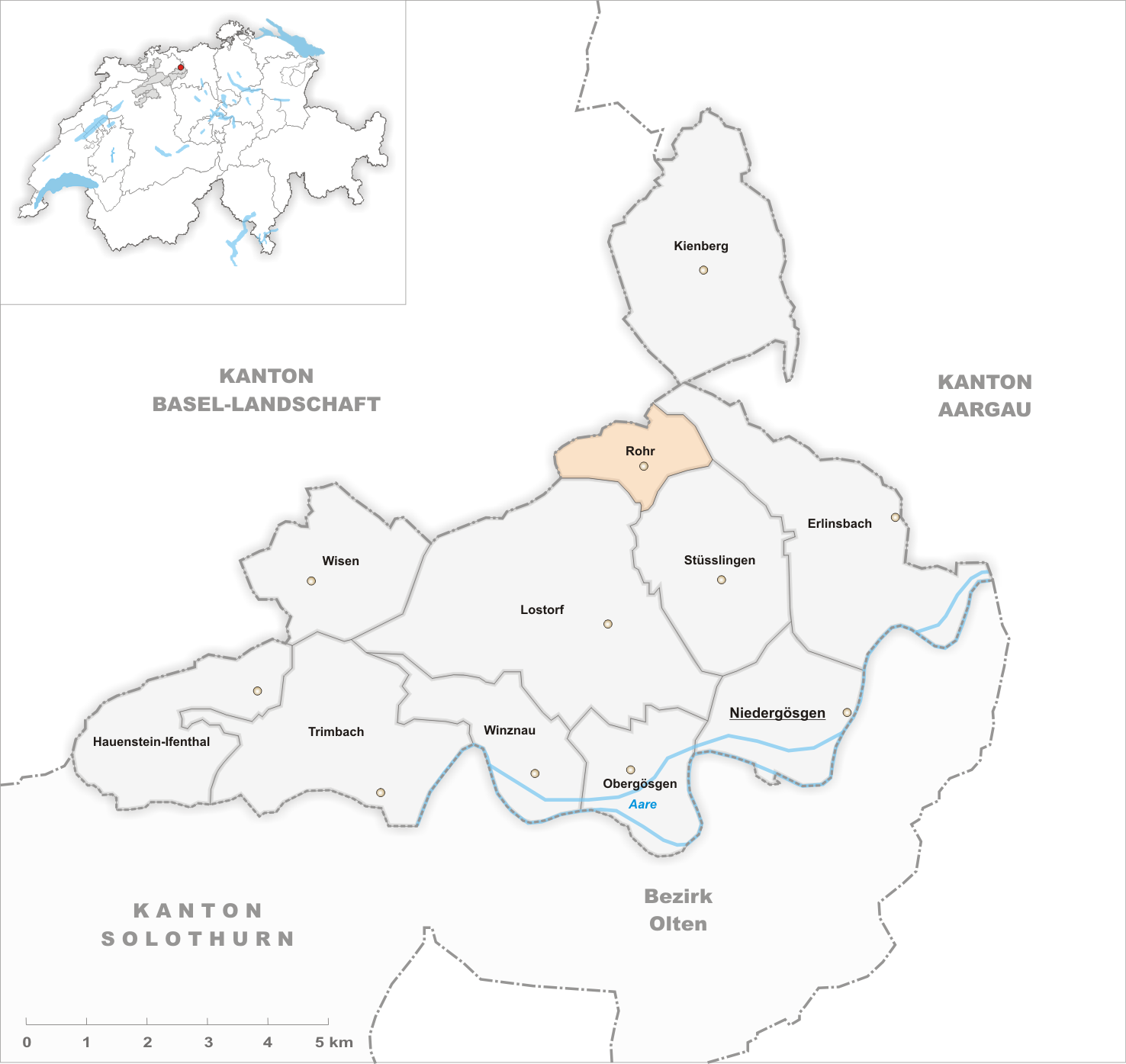 Municipality Rohr